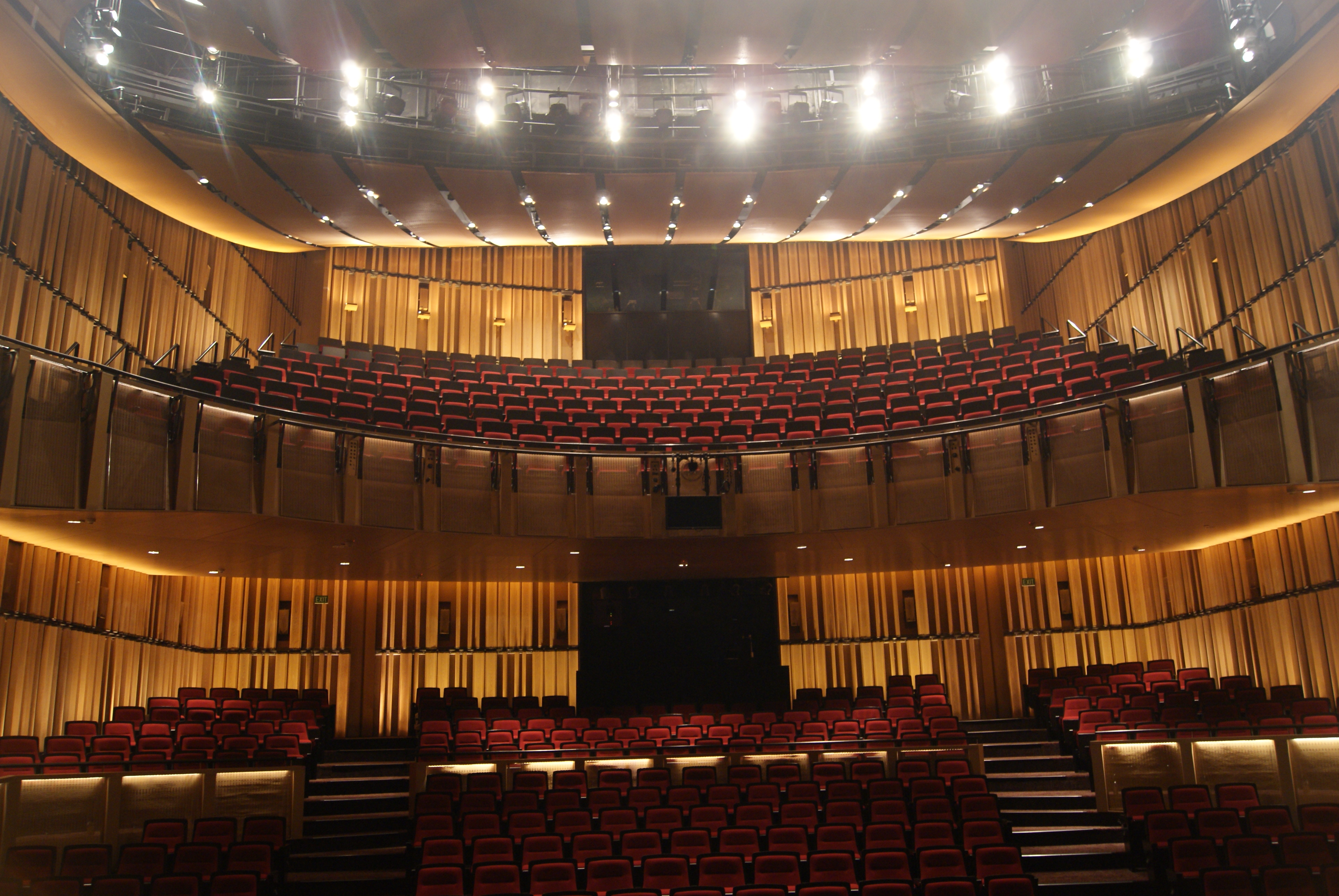 The interior of Victoria Theatre after it reopened on 15 July 2014 following renovations.